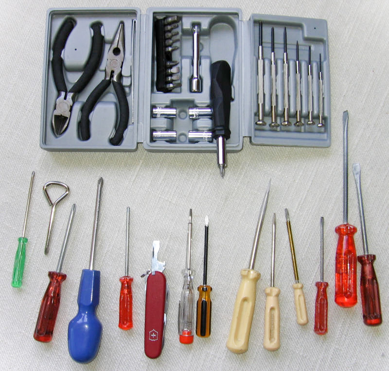 Different screwdrivers. Upper part of picture - set of tools, including six precize screwdrivers (right side) and one handle with a set 10 of detachable different heads allowing to be used for a variety of screw sizes and types (center) Lower part of the picture - crosspoint (Philips) screwdrivers (left), flat-head screwdriwers (right); in the center Victorinox Swiss Army Knife with the blade of screwdriver ready to use.